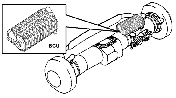 Javelin Battery Coolant Unit (BCU)